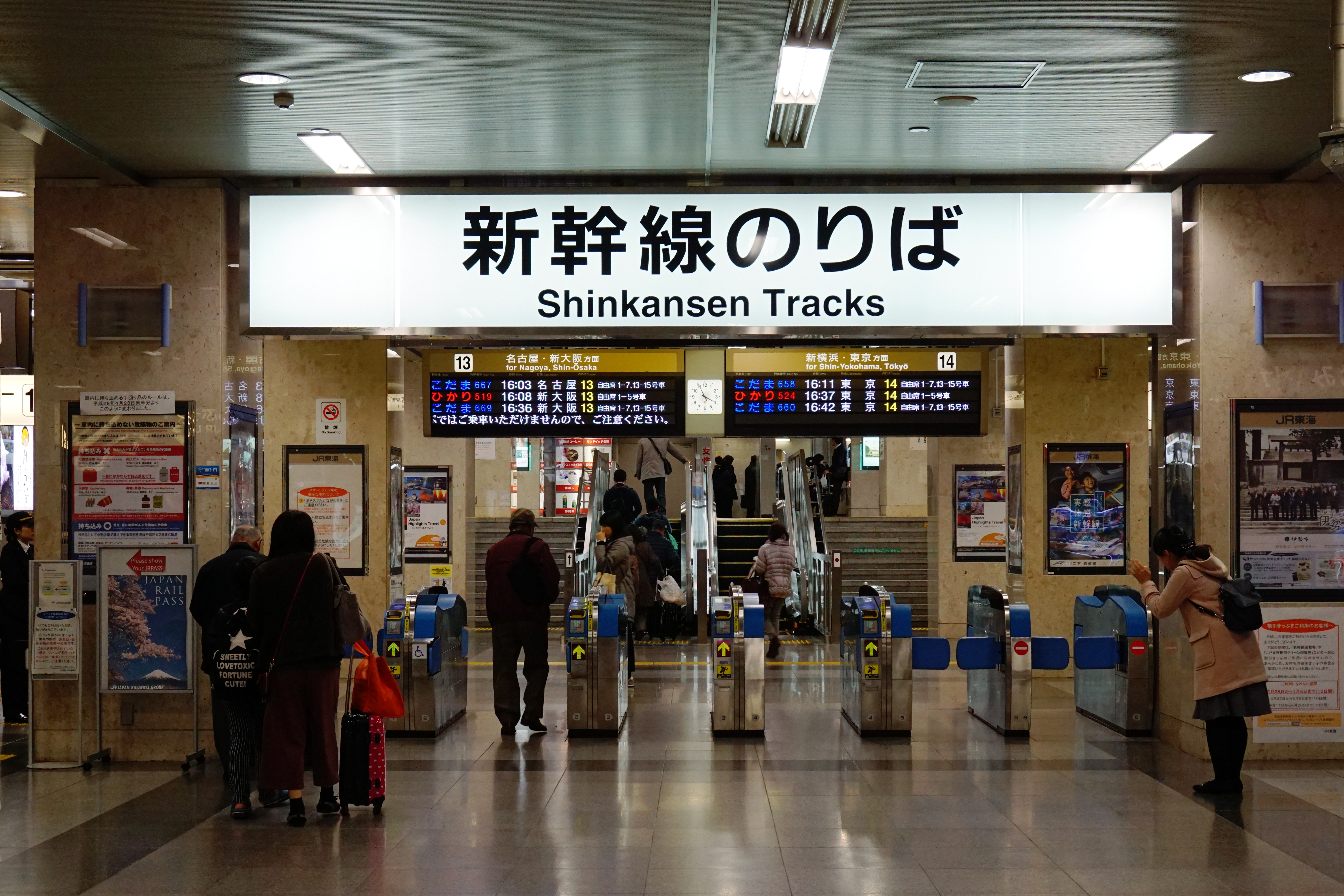 Odawara Station in Odawara, Kanagawa Prefecture, Japan